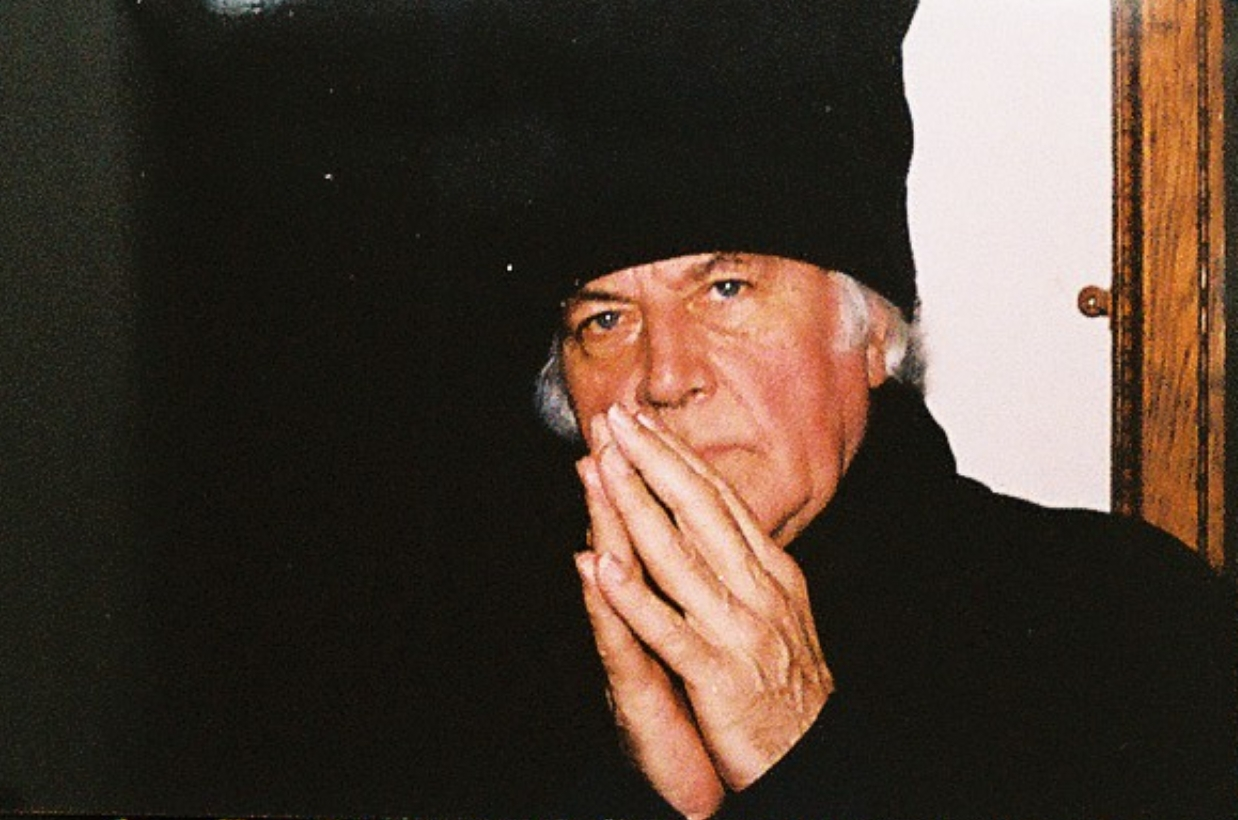 John Boswell Maver by Sergei Stefanovich 2005